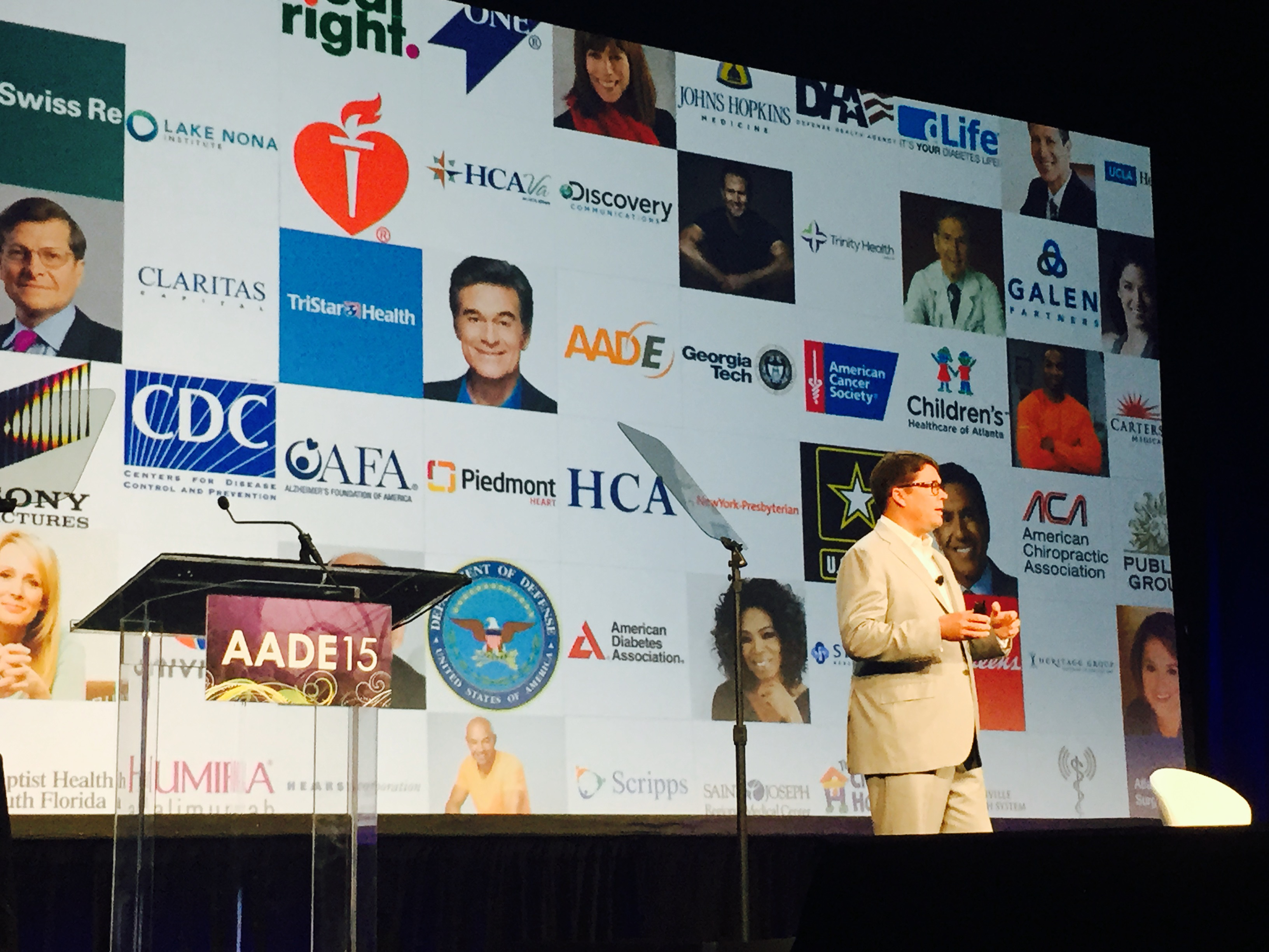 Sharecare founder Jeff Arnold keynoting at the 2015 American Association of Diabetes Educators Conference in New Orleans.